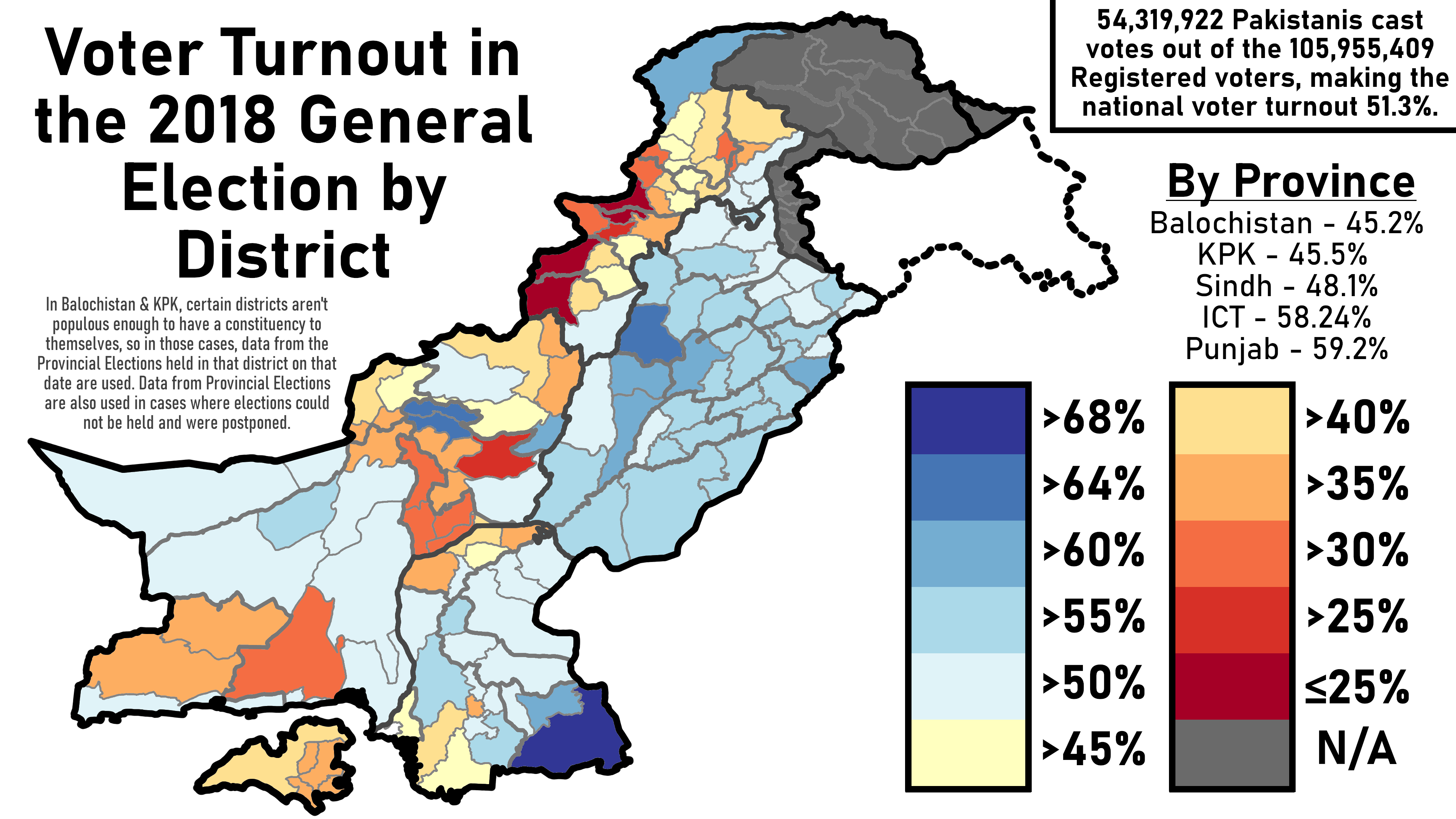 District-by-district map of voter turnout in the 2018 Pakistani General Election. Many districts used data from the provincial elections because they were too small to have their own constituency in a national election or were postponing elections.